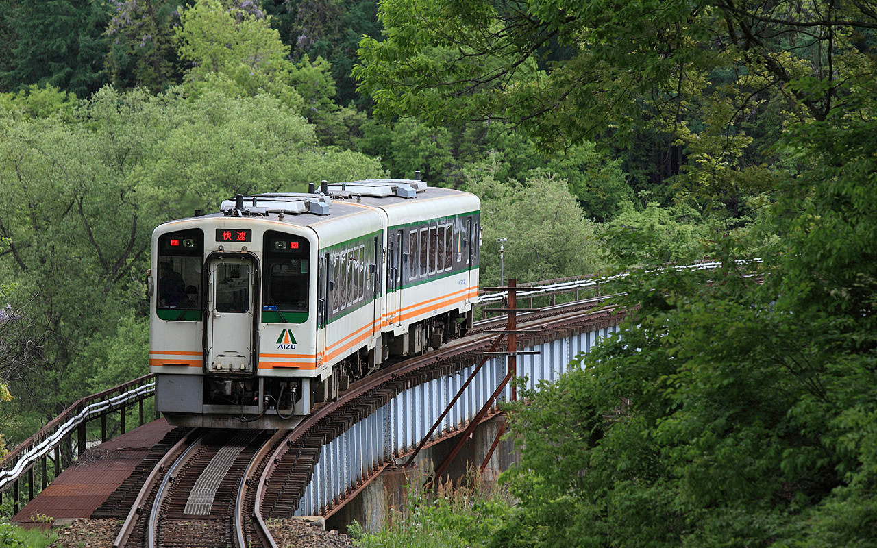 Auzu Railway Type AT-650 on Aizu-Oze Express